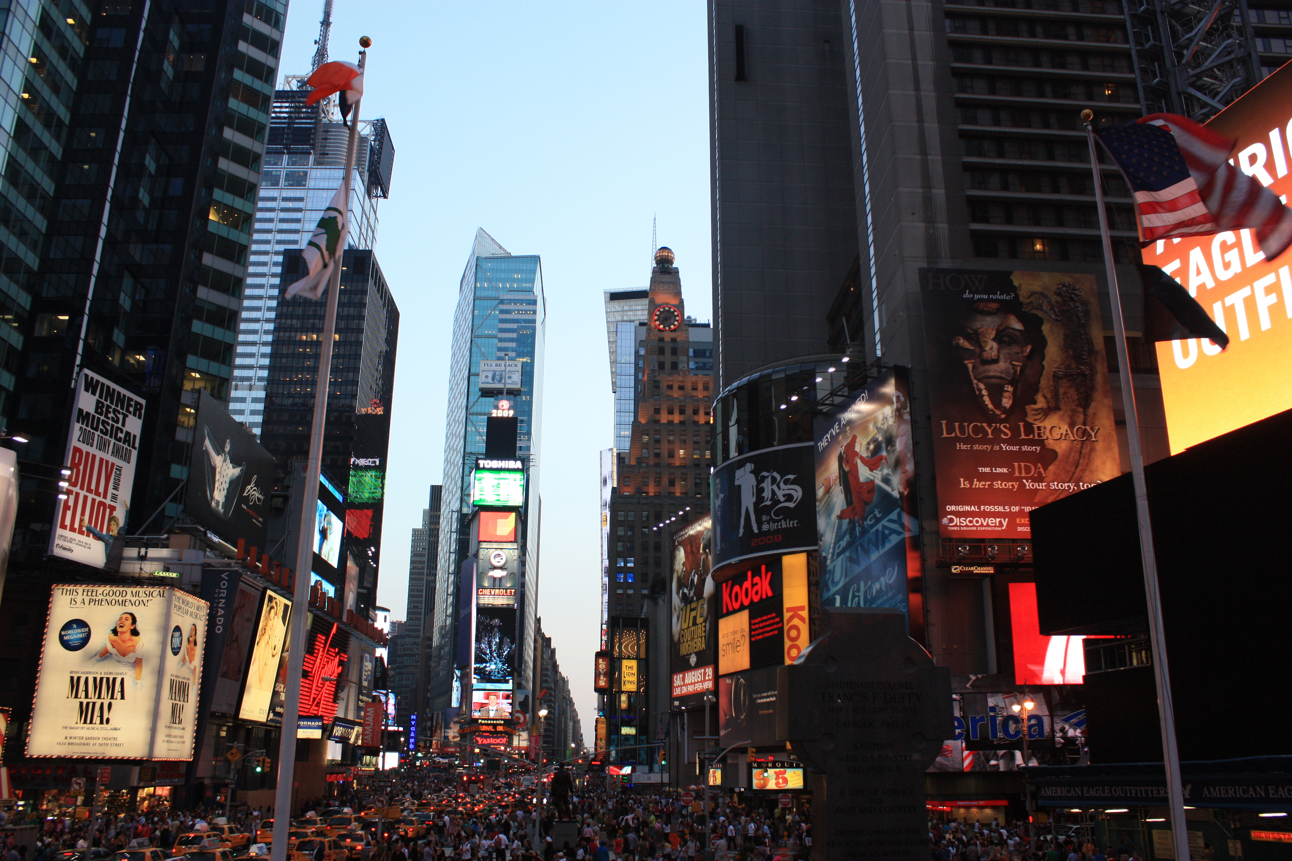 Looking south from 47th